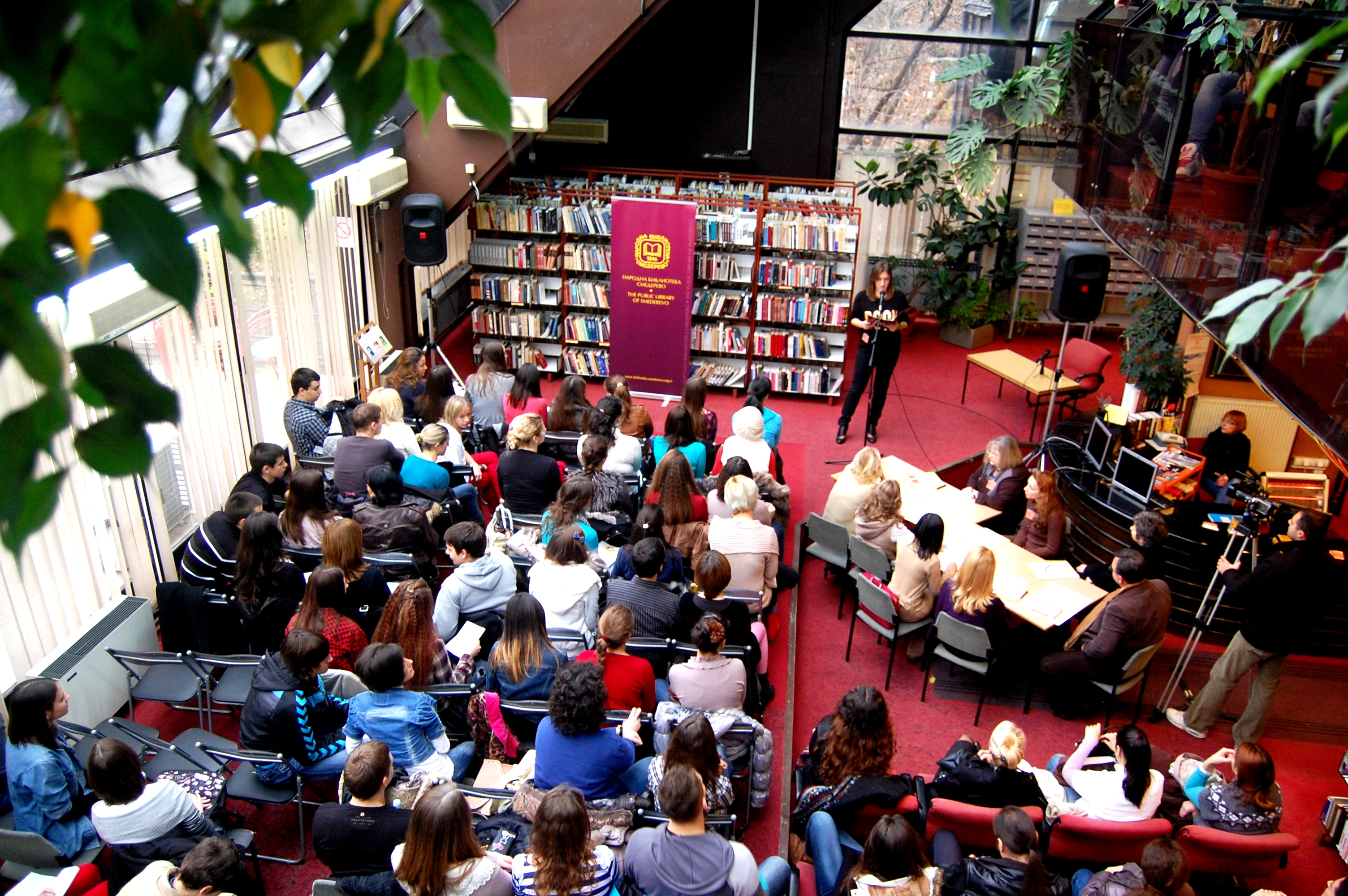 The photograph taken in November 2012, during the semi-final of Stihovizija 4